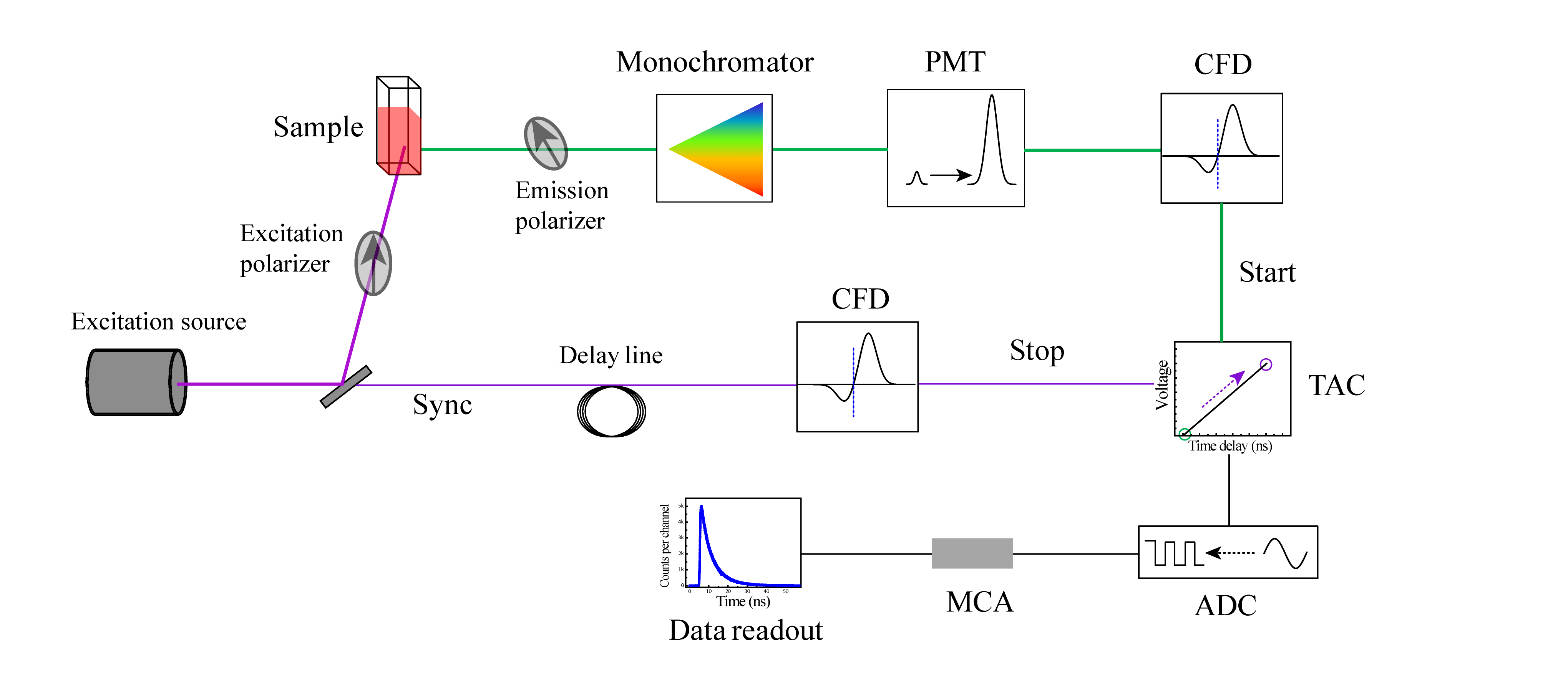 Schematic of a TCSPC setup in reverse mode.